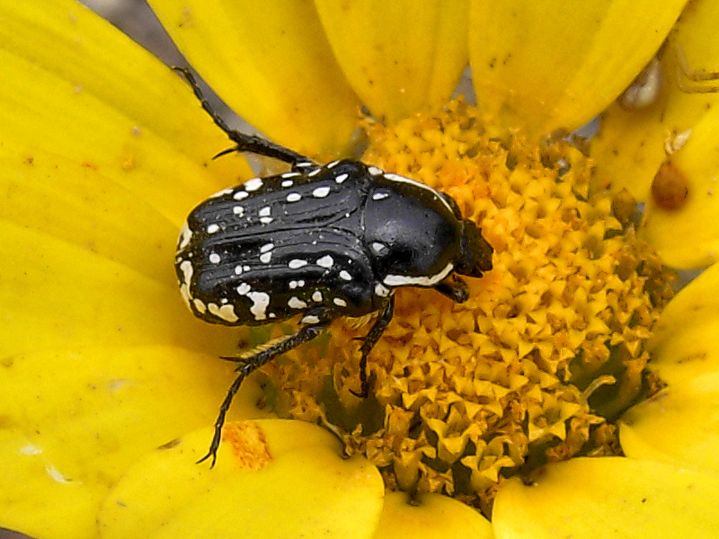 15 km south-east of Heraklion, Crete.